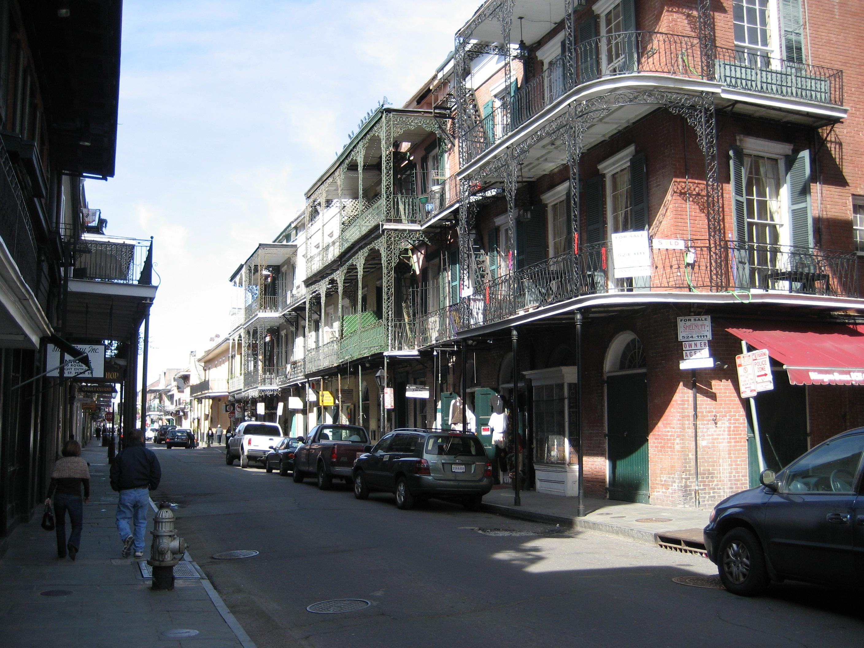 French Quarter, New Orleans, Louisiana St. Peter Street looking lakewards; Cabildo Alley intersection at right.